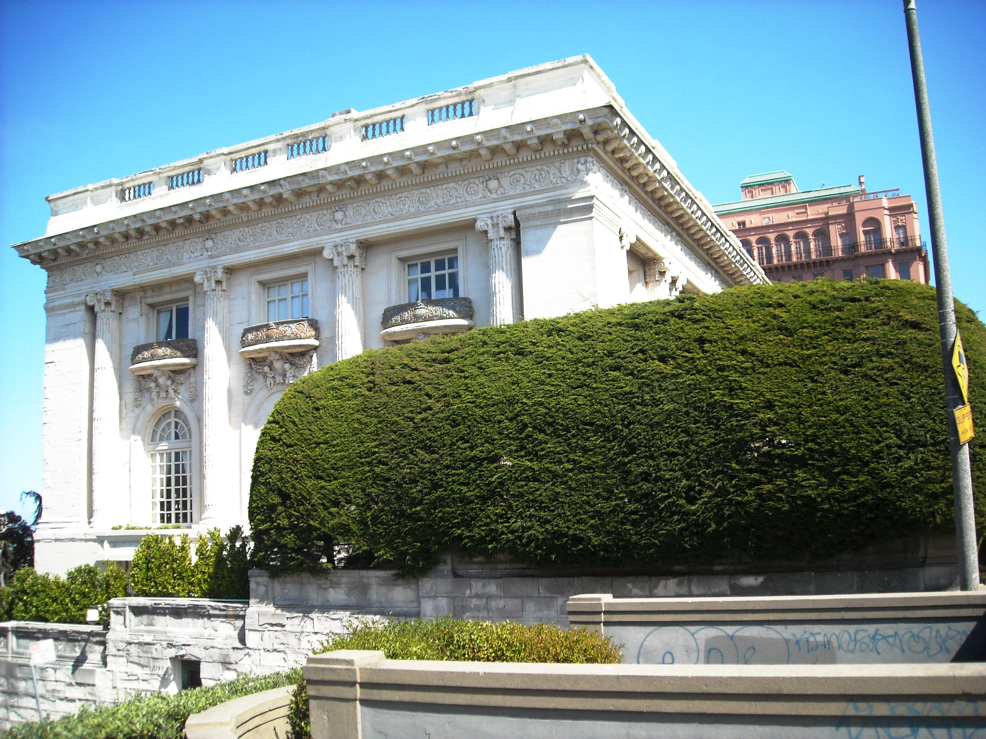 Danielle Steel's longtime residence was in San Francisco, but she now spends most of her time at a second home in Paris. Despite her public image and varied pursuits, Steel is known to be shy and because of that and her desire to protect her children from the tabloids, she rarely grants interviews or makes public appearances. Her 55-room San Francisco home was built in 1913 as the mansion of sugar tycoon Adolph B. Spreckels.